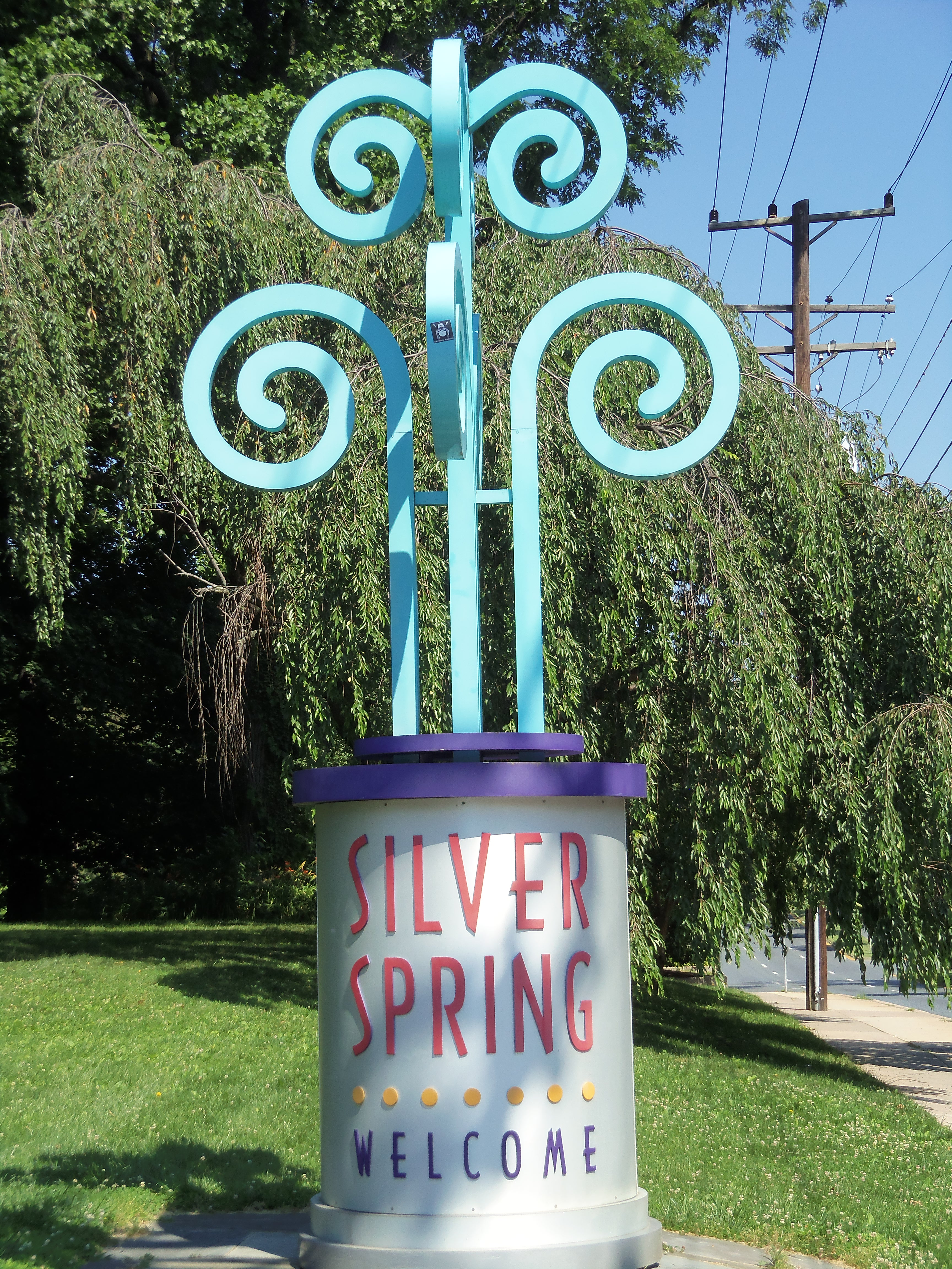 The welcome sign on Georgia Avenue at the entrance to downtown Silver Spring, Maryland.